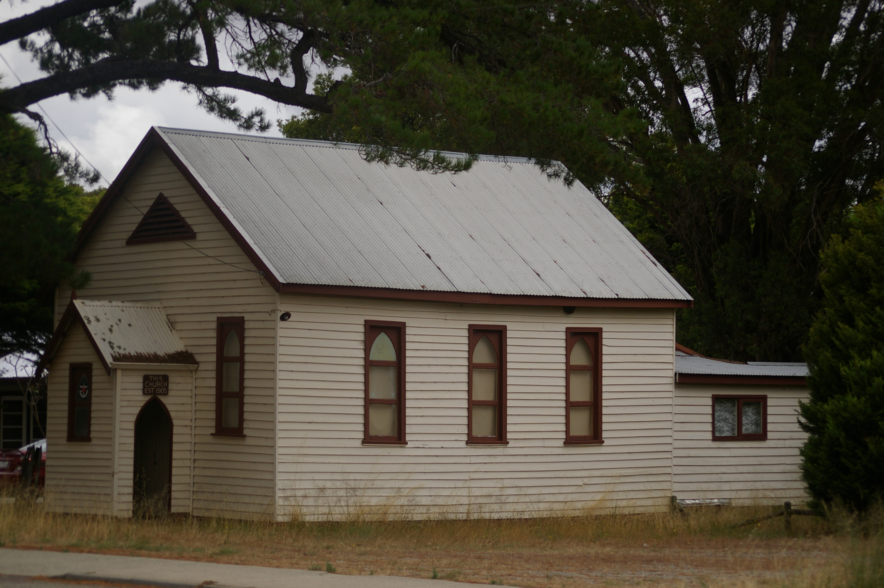 Uniting Church Paterson st Mundijong Jarrah weatherboards over a Jarrah frame with corregated iron roof built 1905